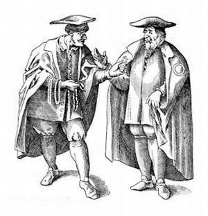 German Jews of the upper Rhine region, sixteenth century. From the Basel Stammbuch of 1612. Published in the en:1901-en:1906 Jewish Encyclopedia, now in the public domain.[1] The circel on the cloaks are the rota or Jewish ring, the commonest form of badge for Jews in some European countries from the 11th to the 17th Century. The men also wears broad flat berets, a headdress especially popular in the 16th century